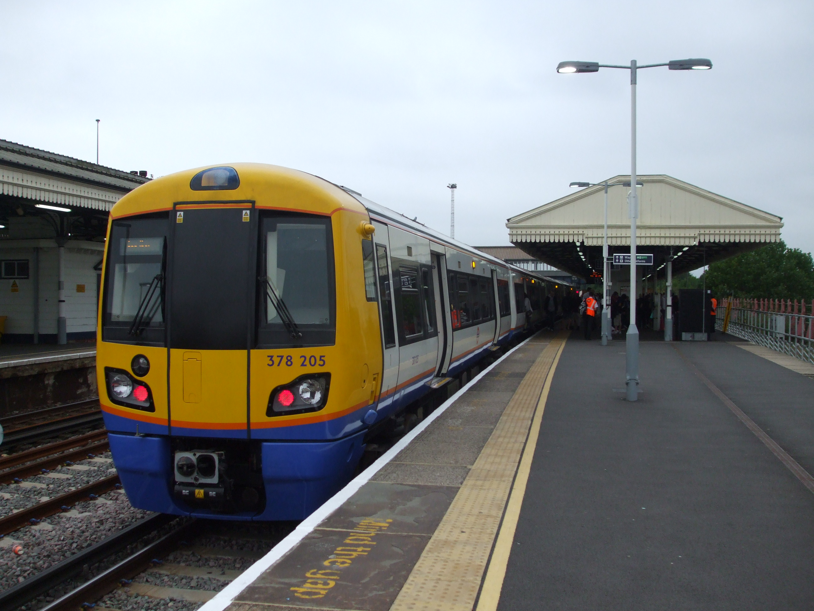 Class 378 unit 378205 arrives with a terminating London Overground service at Clapham Junction station platform 1.